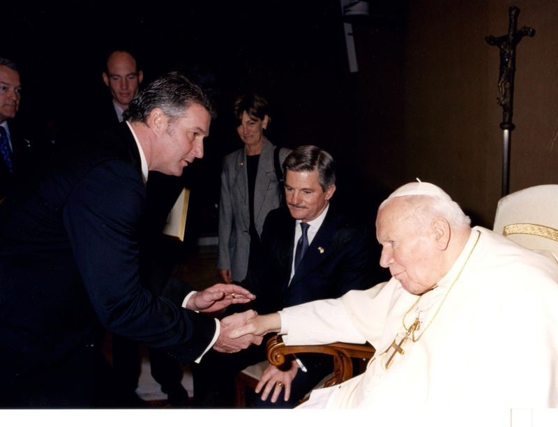 December 4, 2003 -- Congressman Renzi Meets Pope John Paul II at the Vatican